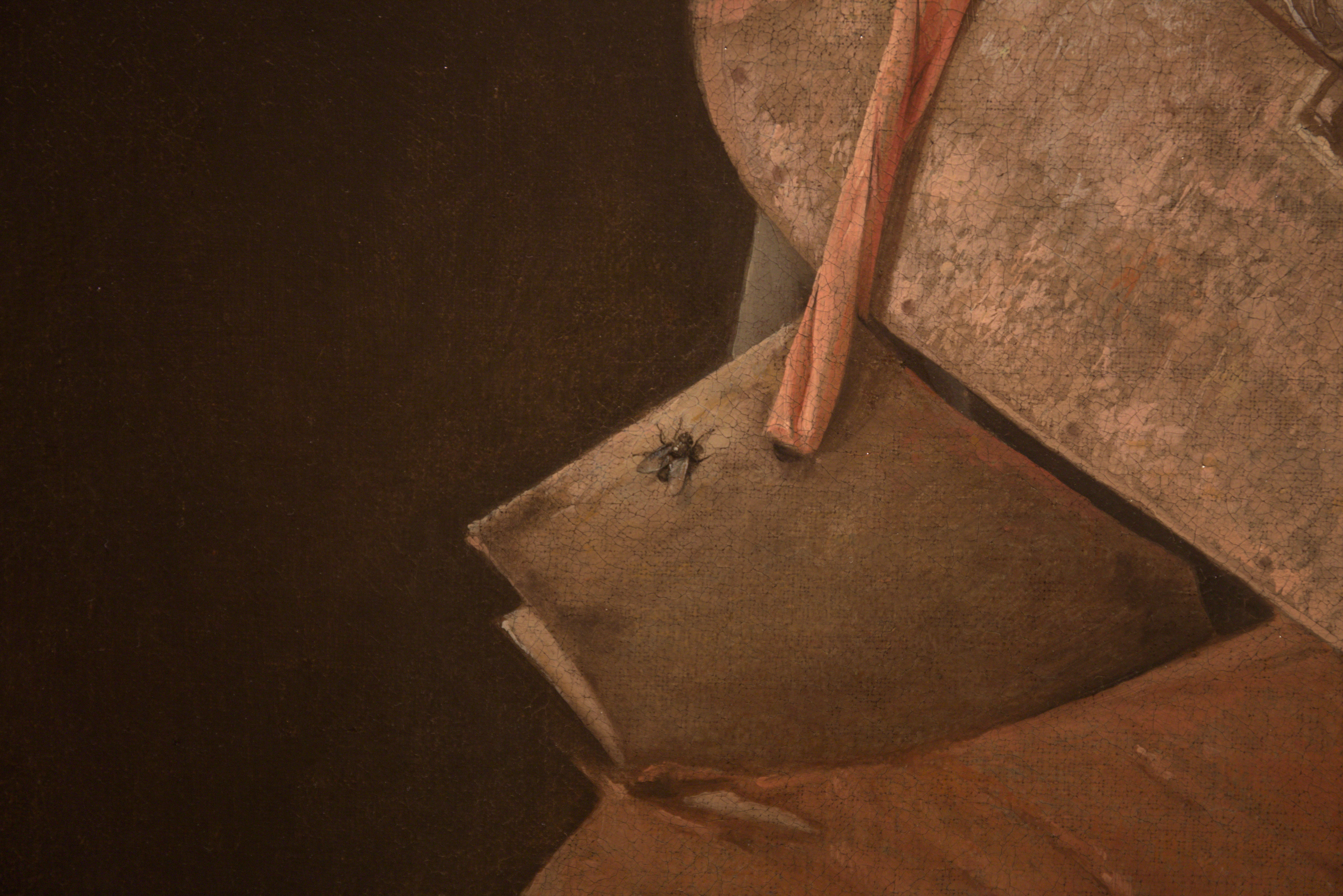 Detail on the fly